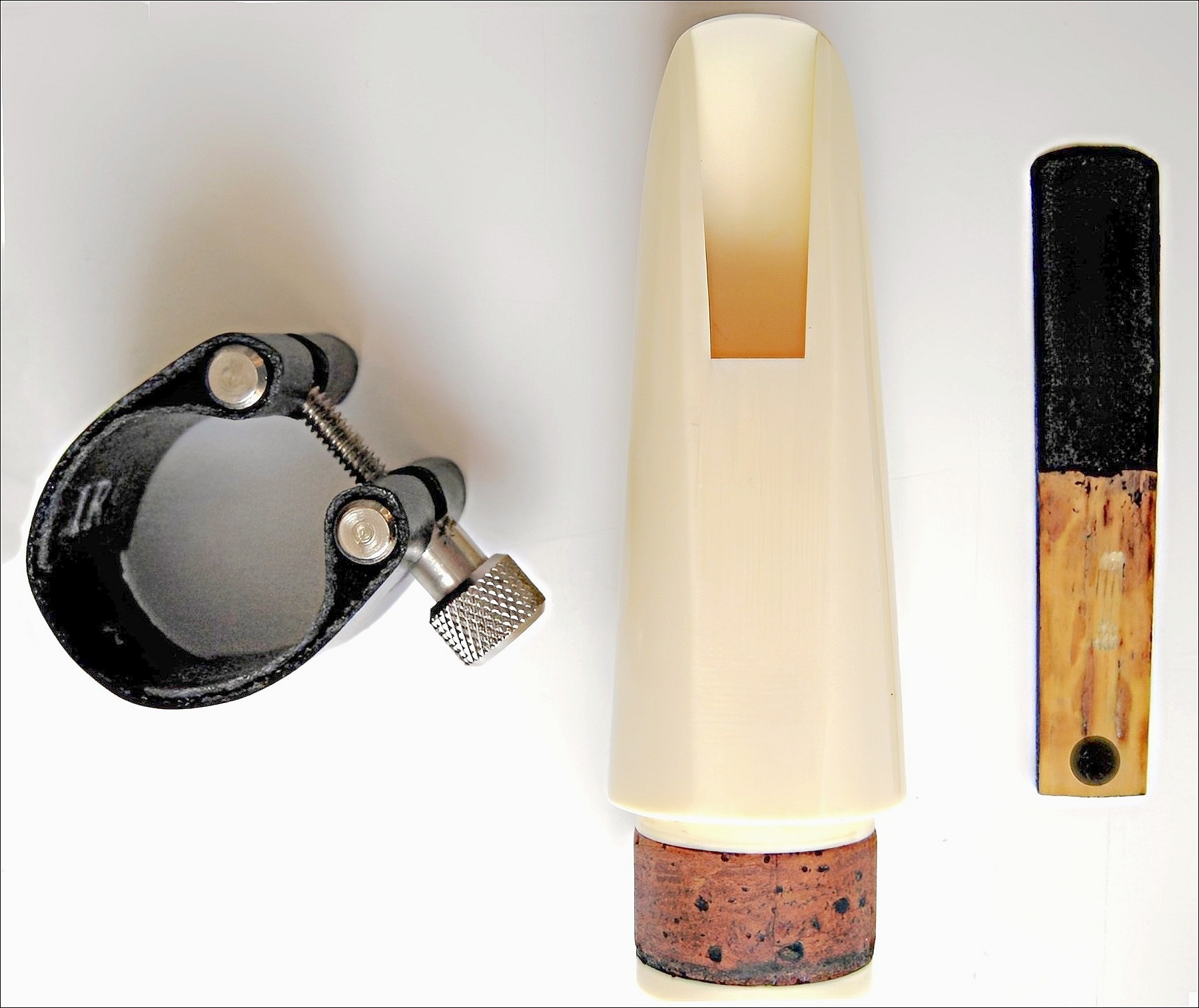 Mouthpiece of a clarinet